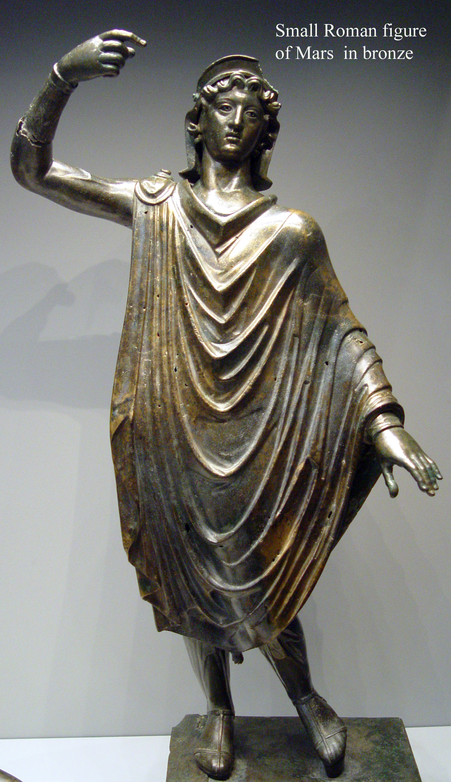 450px 3D version of image. Summary Self-made image, all rights waived by Photo-Journalist.